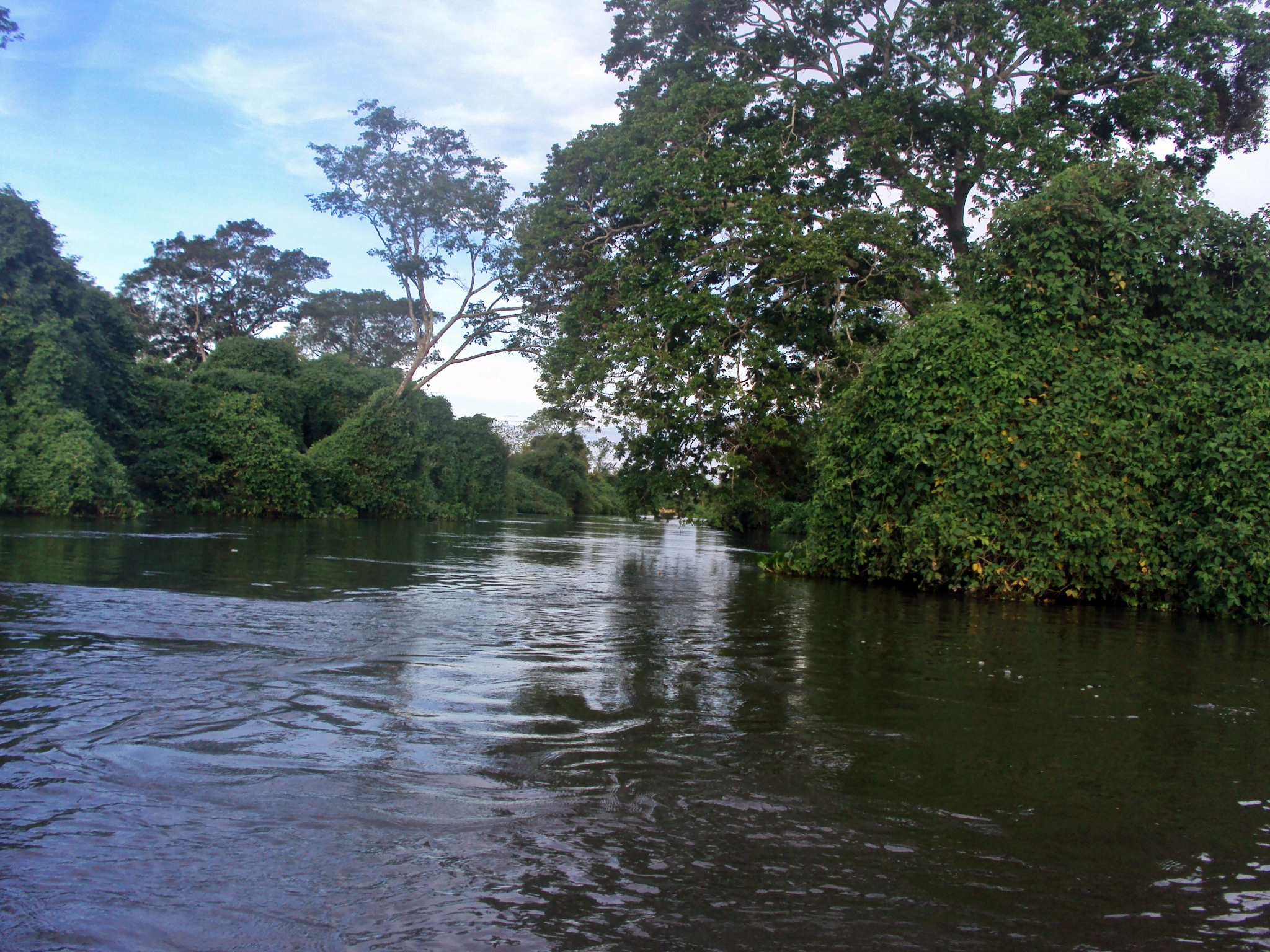 The Cuiabá River, passing through the Pantanal mato-grossense Park wetlands.